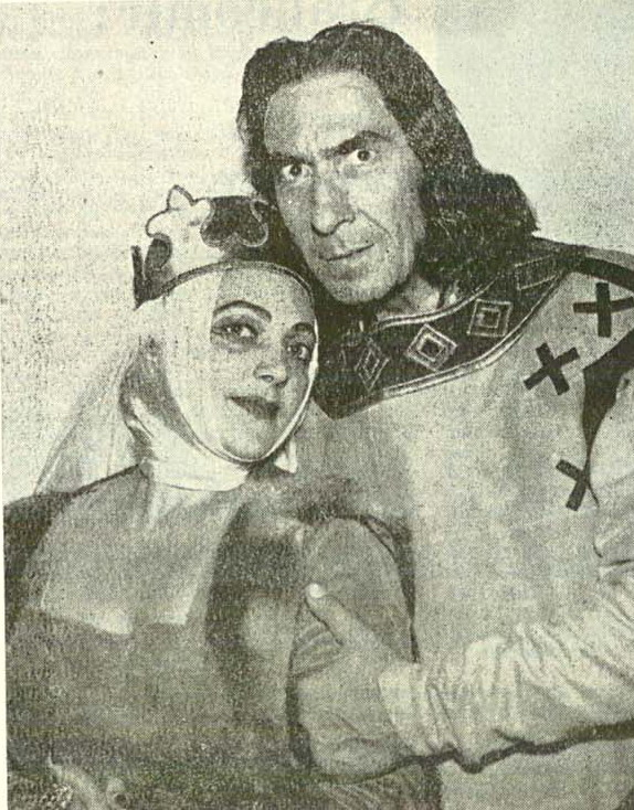 Romanian actors Ileana Răchițeanu și Nicolae Brancomir